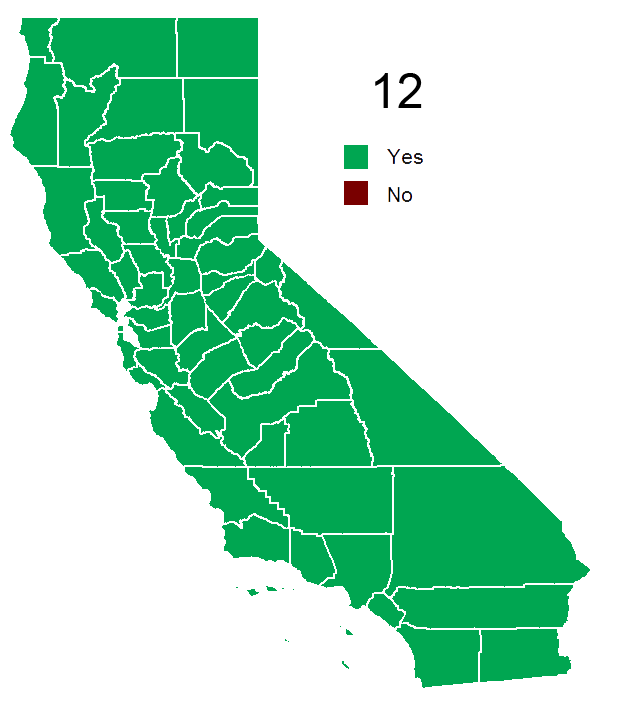 Electoral results by county.